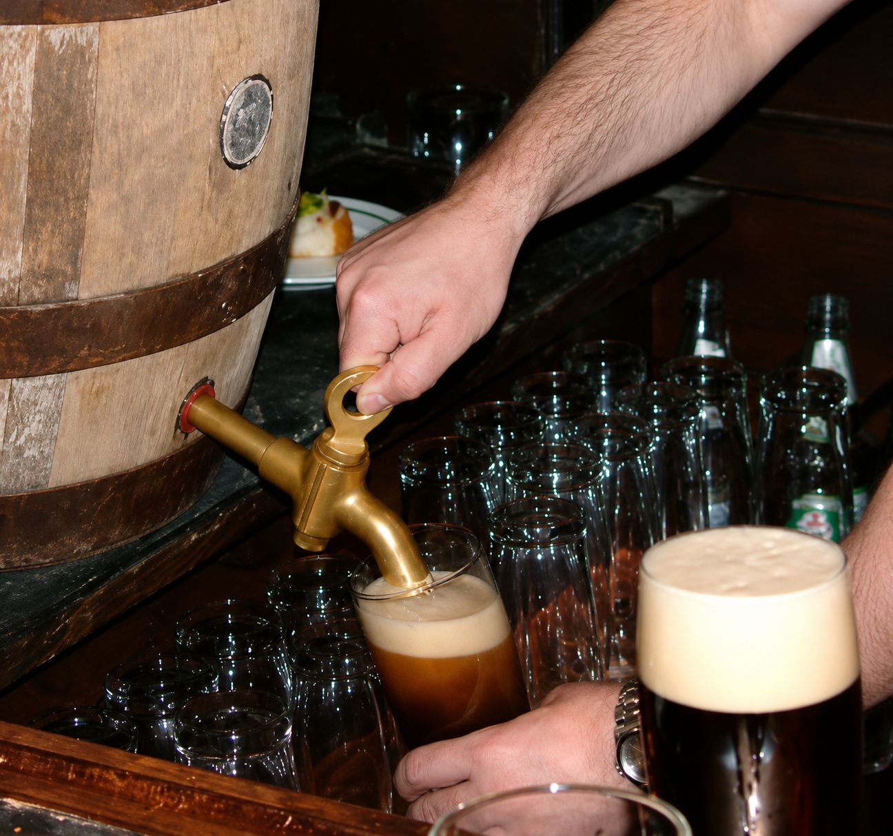 Author John White Cropped version of Image:GravityCask.jpg